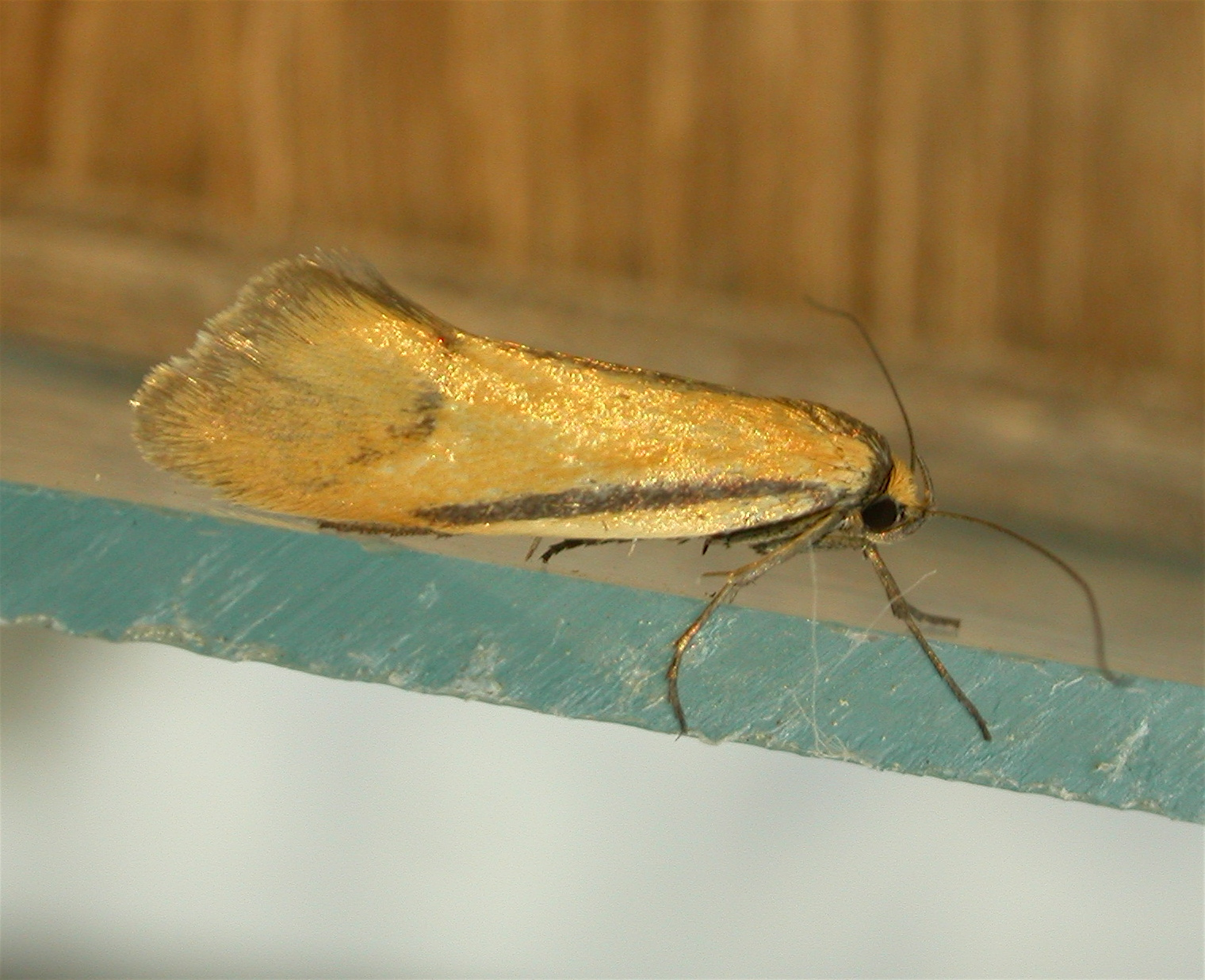 Philobota sp. near P. arabella (Newman, 1856), to MV light, Aranda, ACT, 24/25 September 2008